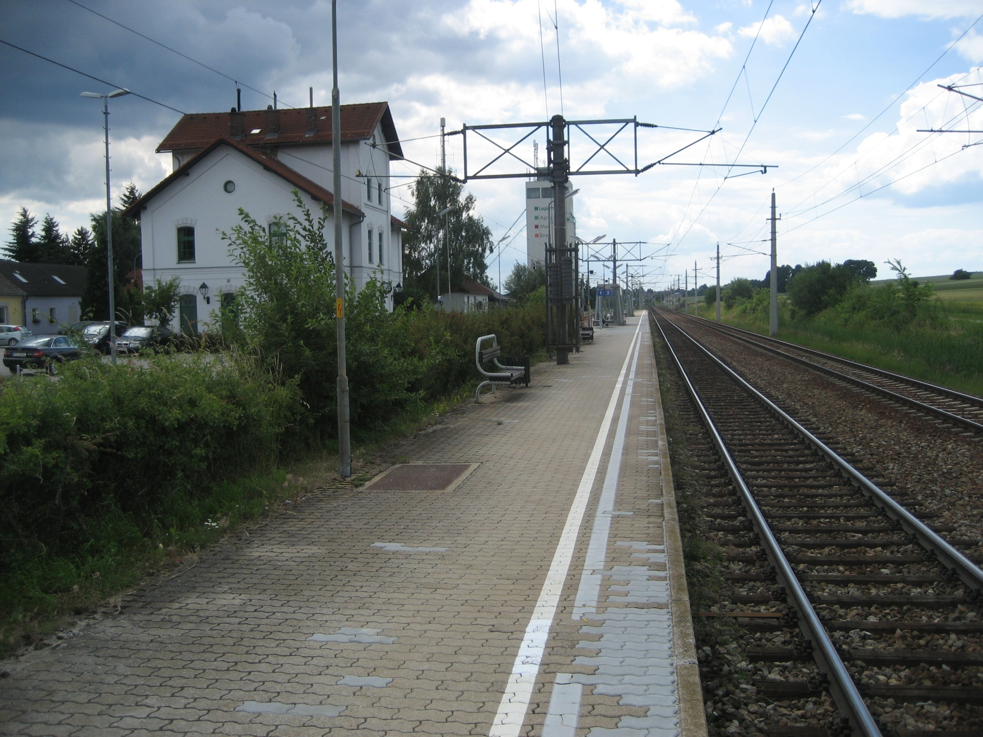 Irnfritz train station, in Lower Austria